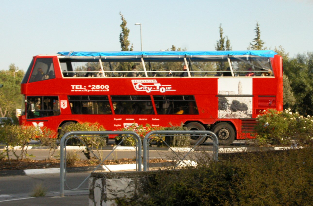 Egged touring bus in Jerusalem.